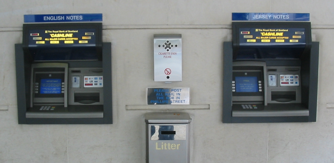 Automatic teller machines at a bank in Jersey dispensing dual currencies: Bank of England sterling and Jersey pounds Photo taken by Man vyi with Canon PowerShot A40 on 29/6/2005